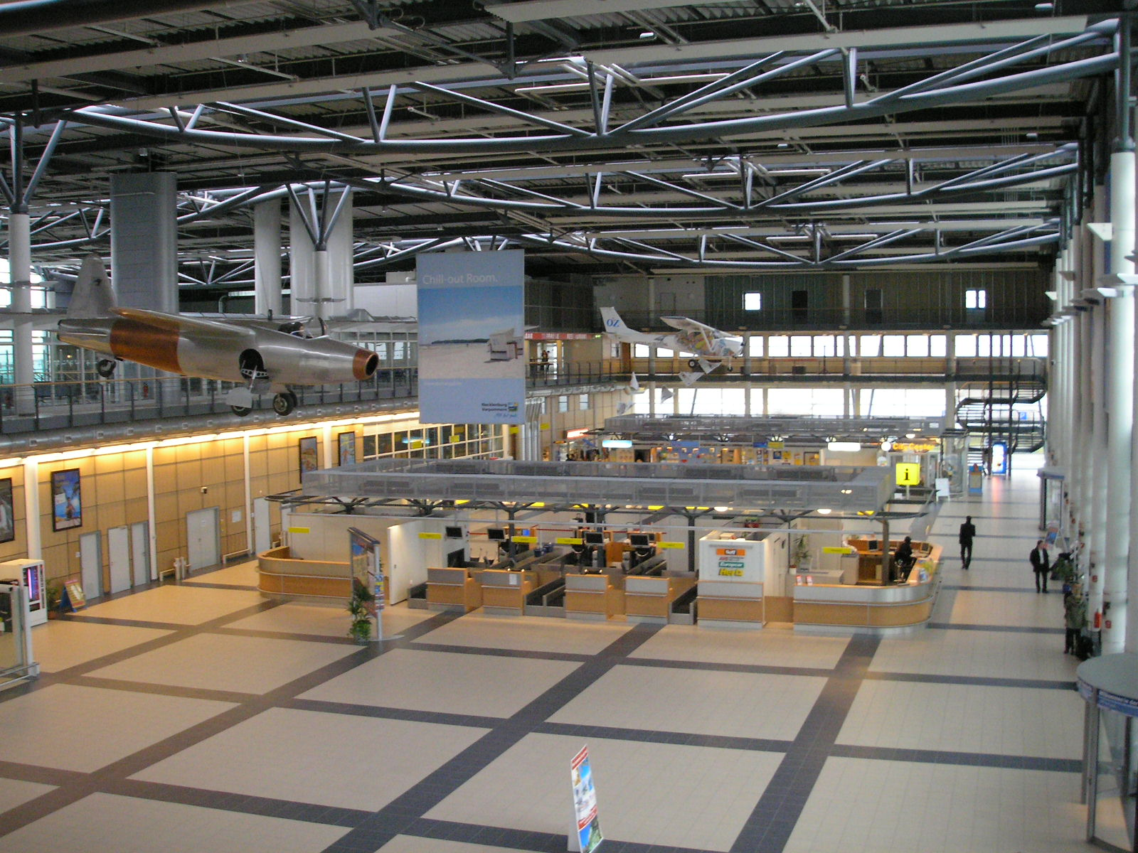 Image of arrival hall in Rostock-Laage Airport.